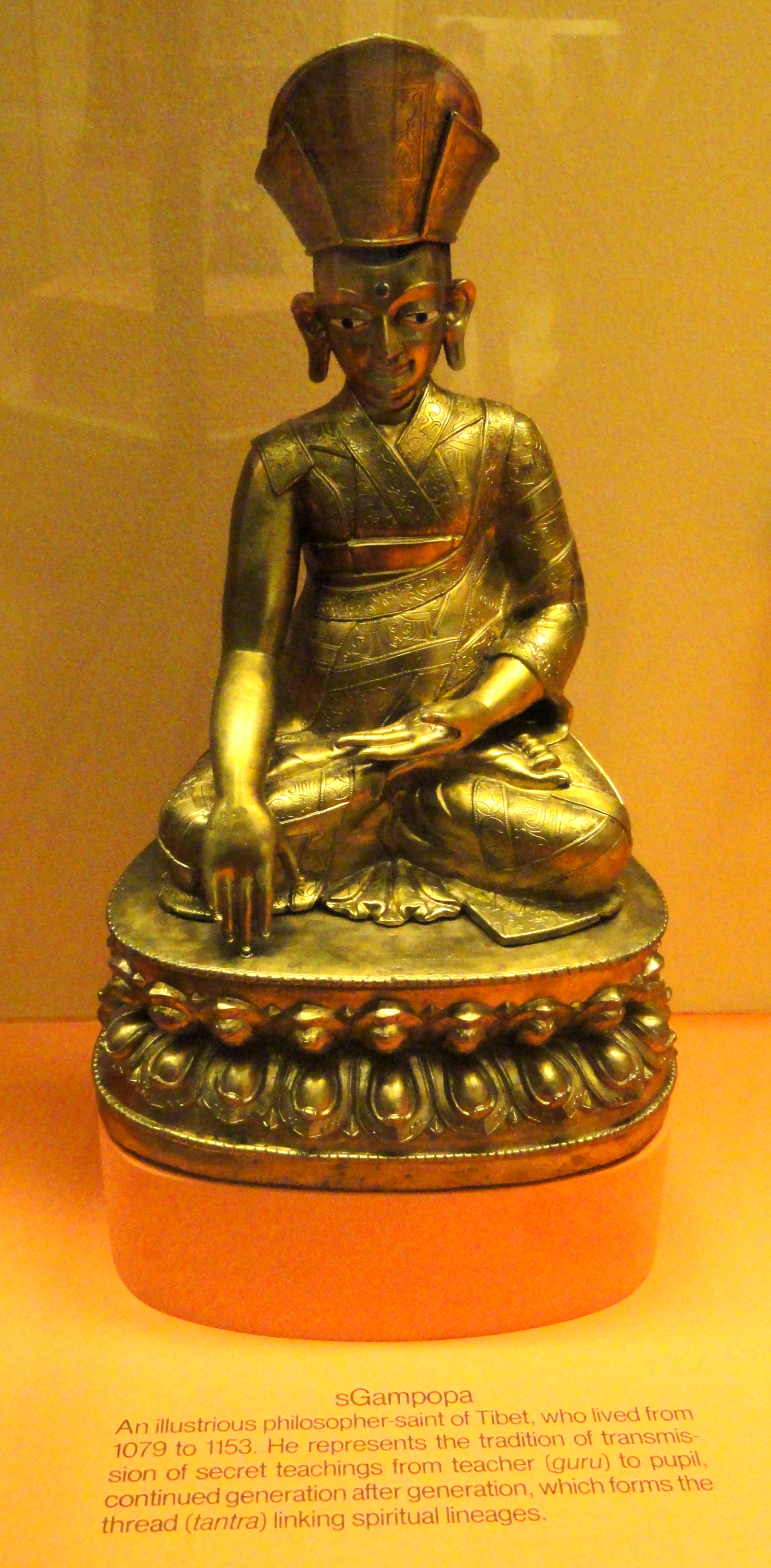 Exhibit in the Asian collection of the American Museum of Natural History, Manhattan, New York City, New York, USA.